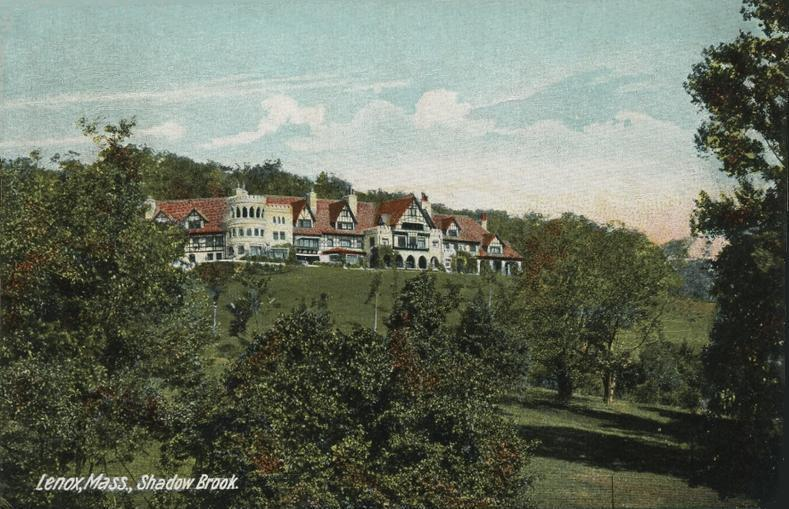 Shadowbrook, Lenox, MA; from a 1908 postcard published by the Hugh C. Leighton Co. of Portland, Maine. It was built in 1893 for Anson Phelps Stokes, who hired Ernest W. Bowditch to design the 900 acre grounds. The estate was purchased in 1917 by Andrew Carnegie, who died there in 1919. The 100 room house burned in 1956.